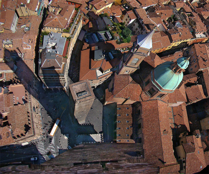 Bologna, Emilia-Romagna, Italy. View from the Asinelli Tower: at left, the Piazza Ravegnana with the Garisenda Tower; at right, the Santi Bartolomeo e Gaetano church.